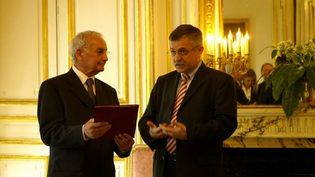 Robert_Hébras_and_Dr._Hubert_Heiss